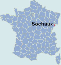 Map of Sochaux